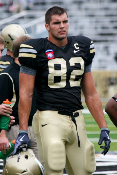 Alejandro Villanueva was offensive captain for the Army Black Knights as a senior while playing Wide Receiver.